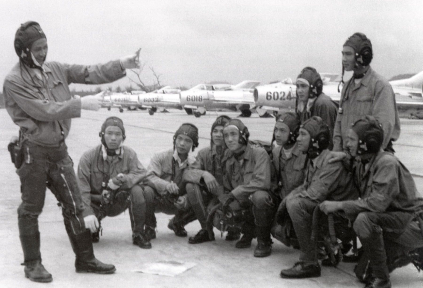 Vietnamese People's Air Force pilots discussing tactics on their flightline in front of Shenyang J-6 fighters (Chinese-built Mikoyan-Gurevich MiG-19). These aircraft were supplied to the VPAF 925th Fighter Regiment in 1971, the only unit to operate the MiG-19. China delivered more than 50 J-6, but it was quickly superceded by the MiG-21.